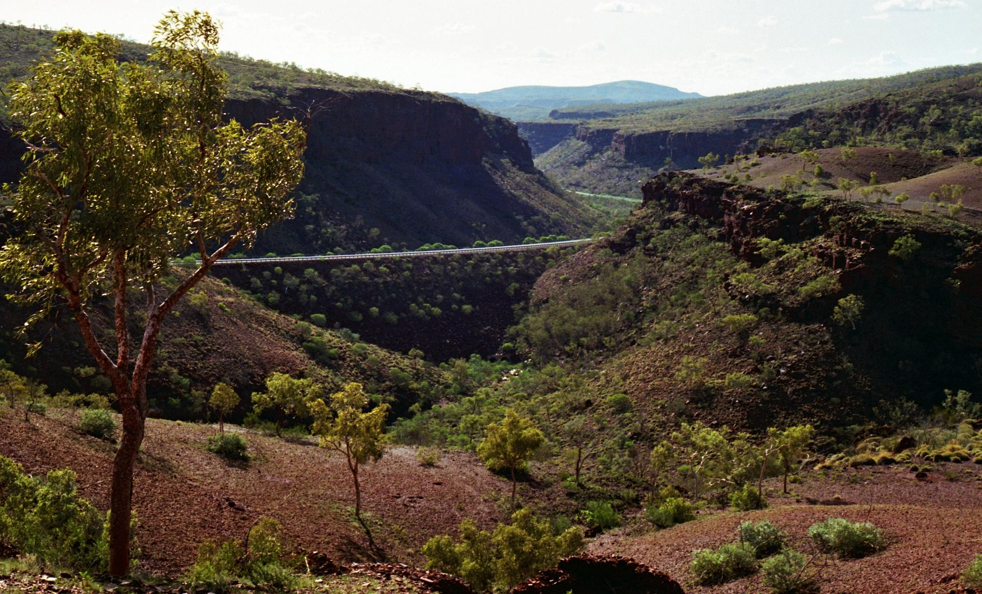 Early 1992 - Gt Northern Hwy in Munjina Gorge, WA